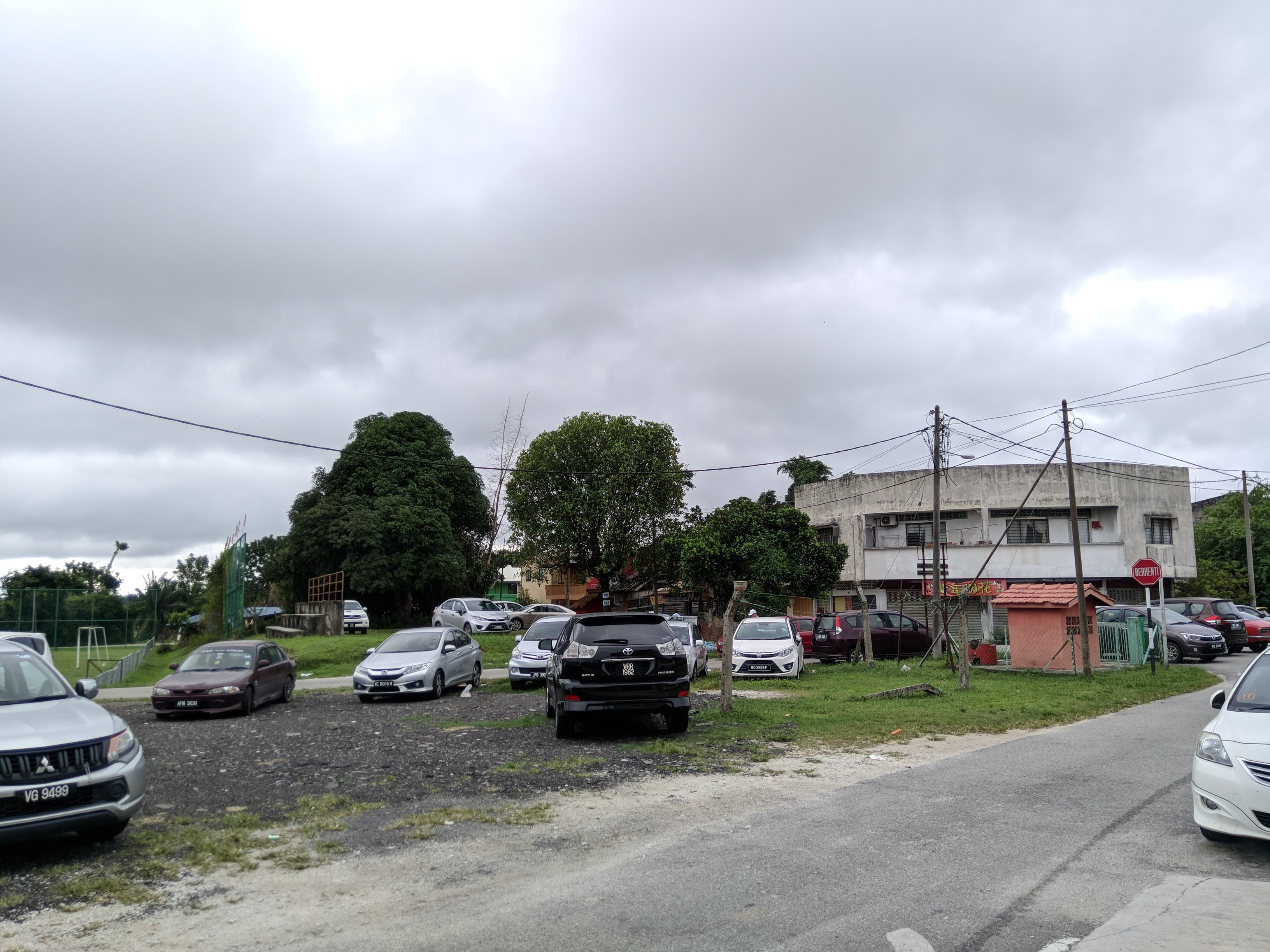 Car parking at Batu Arang